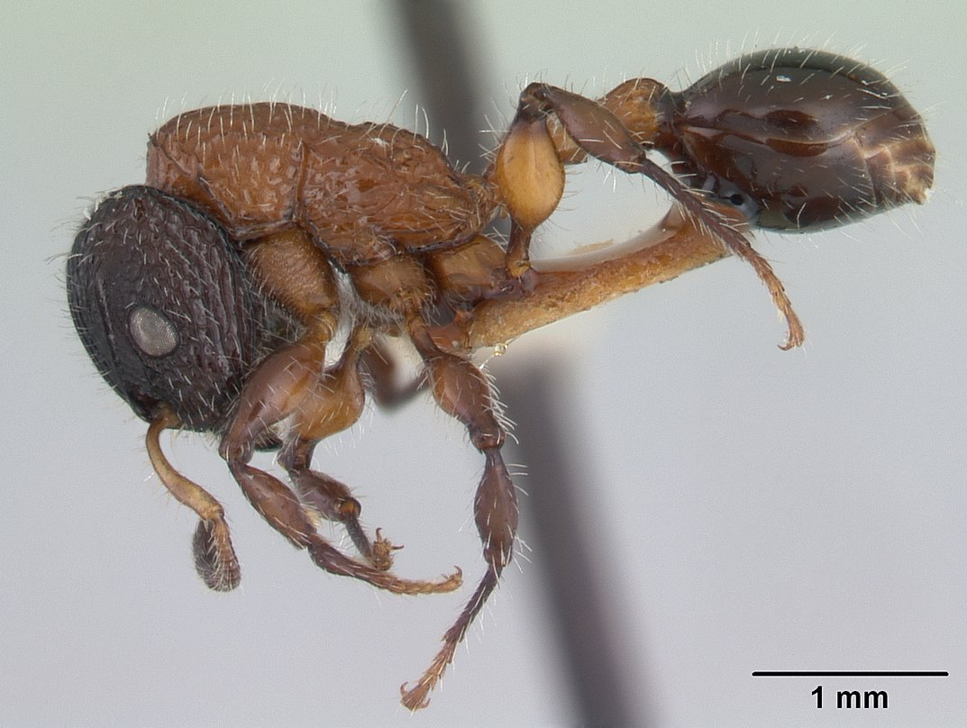 Profile view of ant Dilobocondyla fouqueti specimen casent0178565.